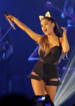 Ariana Grande performing during The Honeymoon Tour in Jakarta, Indonesia on August 26, 2015